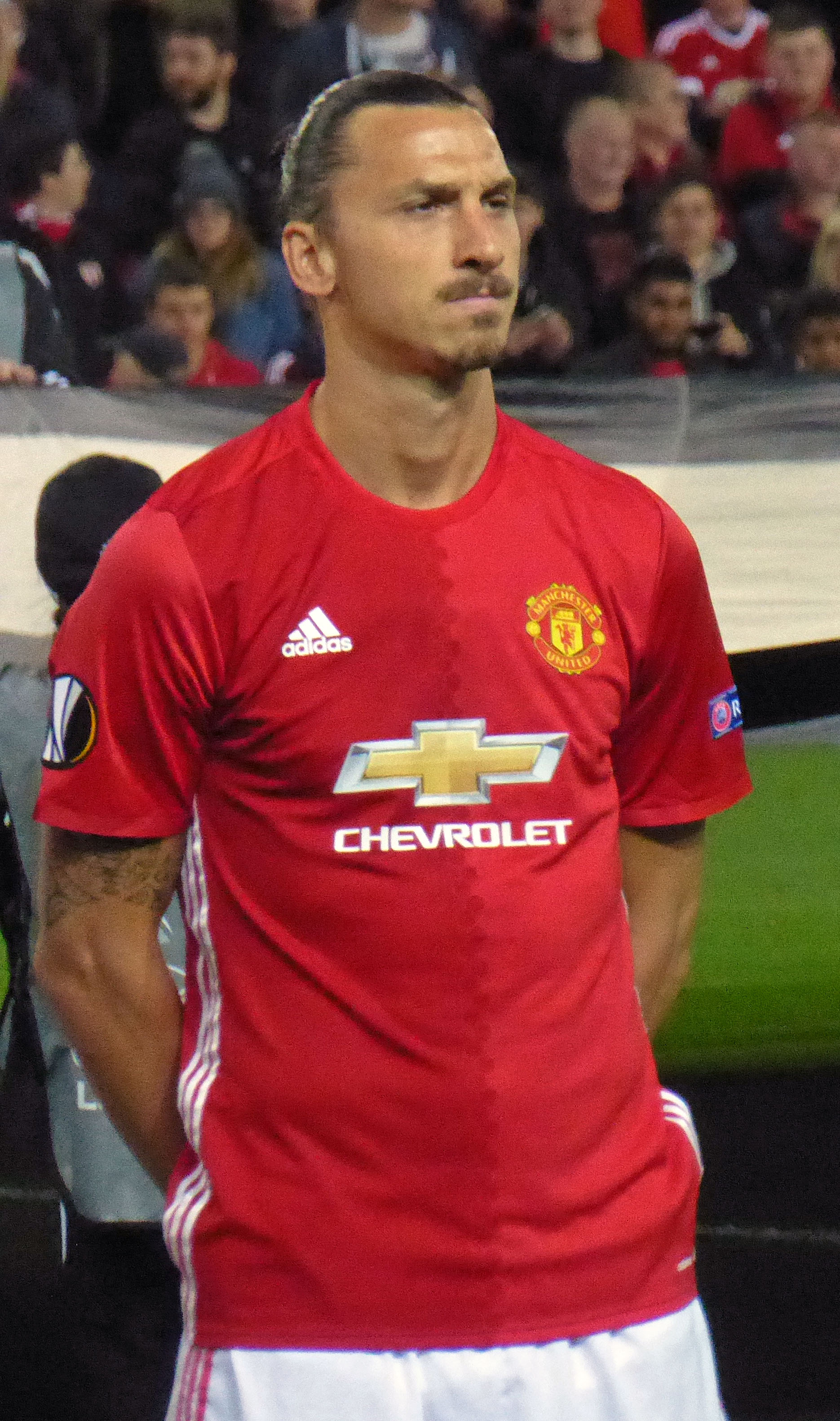 Manchester United v Zorya Luhansk (1-0), Europa League, Old Trafford, Manchester, Greater Manchester, England, September 2016.